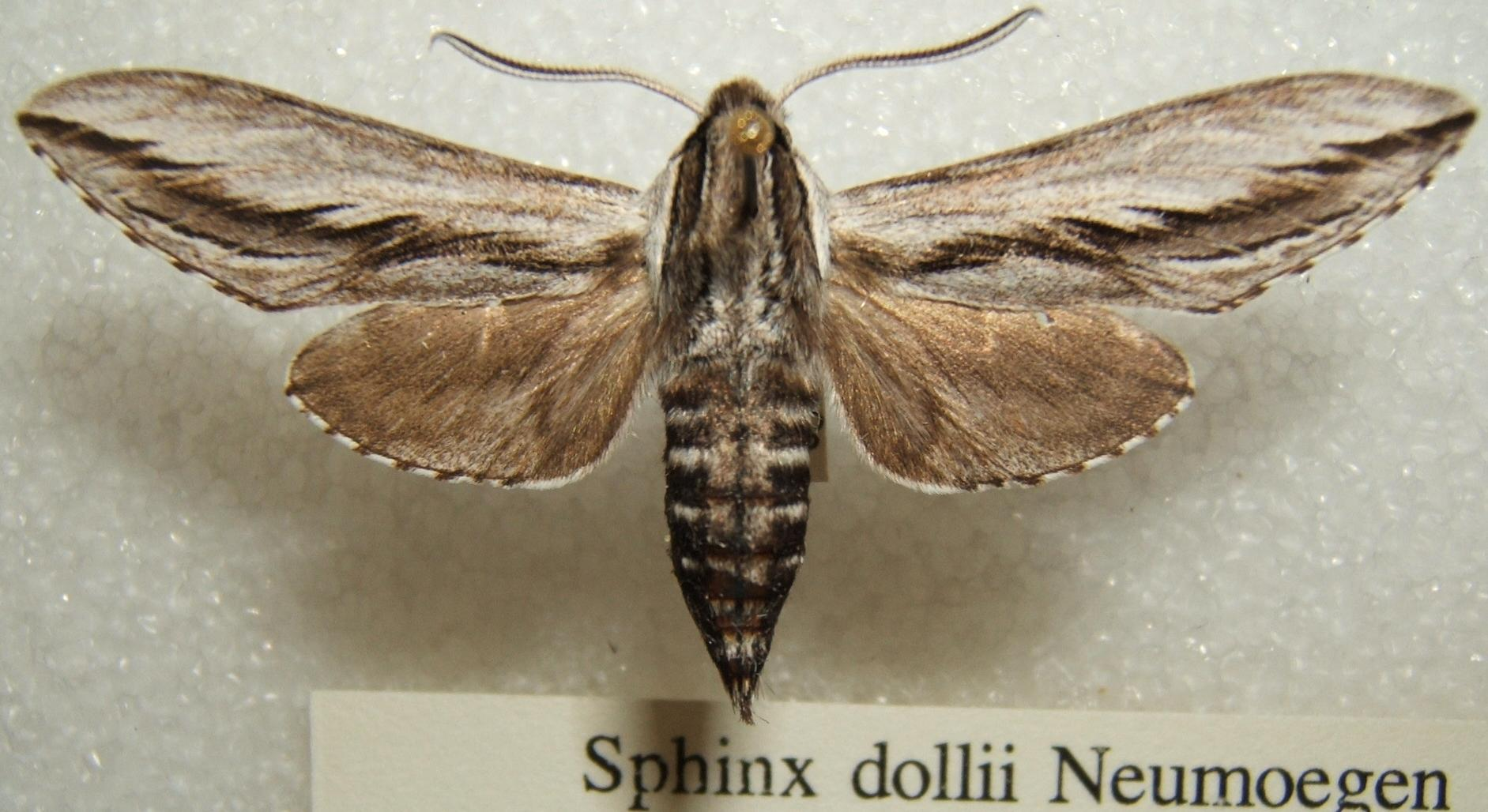 Sphinx dollii adult taken by Shawn Hanrahan at the Texas A&M University Insect Collection in College Station, Texas.